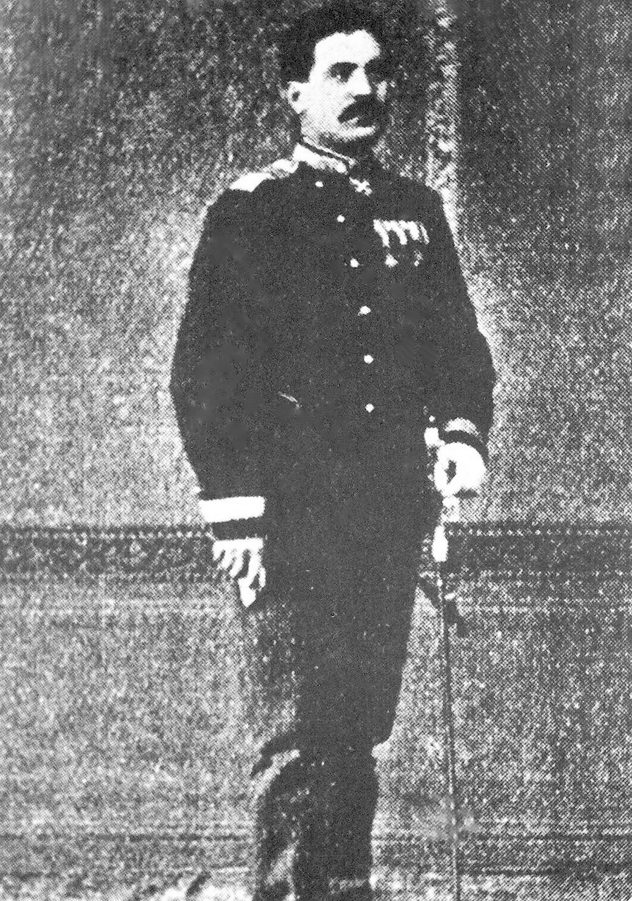 Putnik ranked major in 1879. Српски (ћирилица): Путник са чином мајора 1879. године